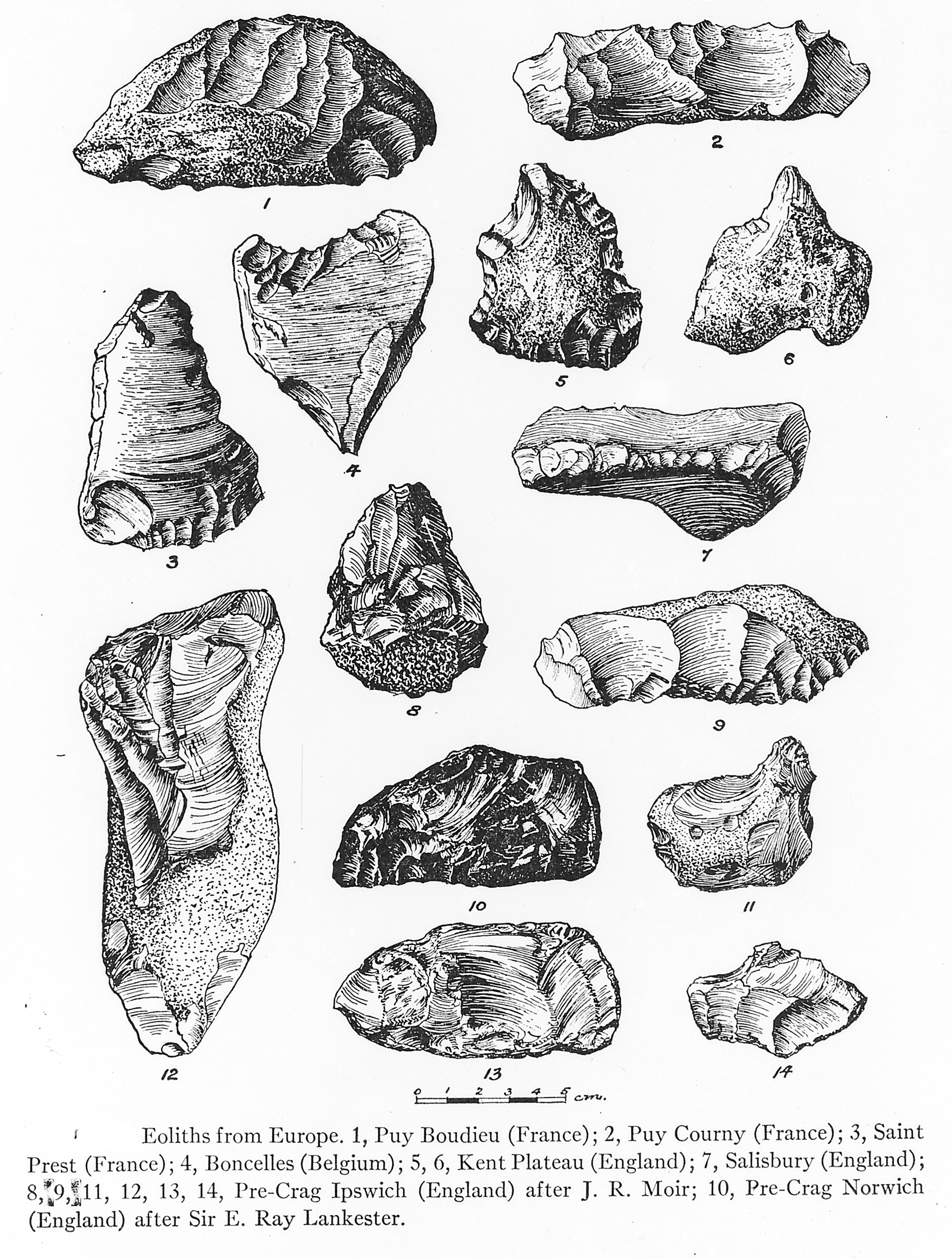 Eoliths from France, Belgium and England. Wellcome Images Keywords: prehistoric; Archaeology; Geology